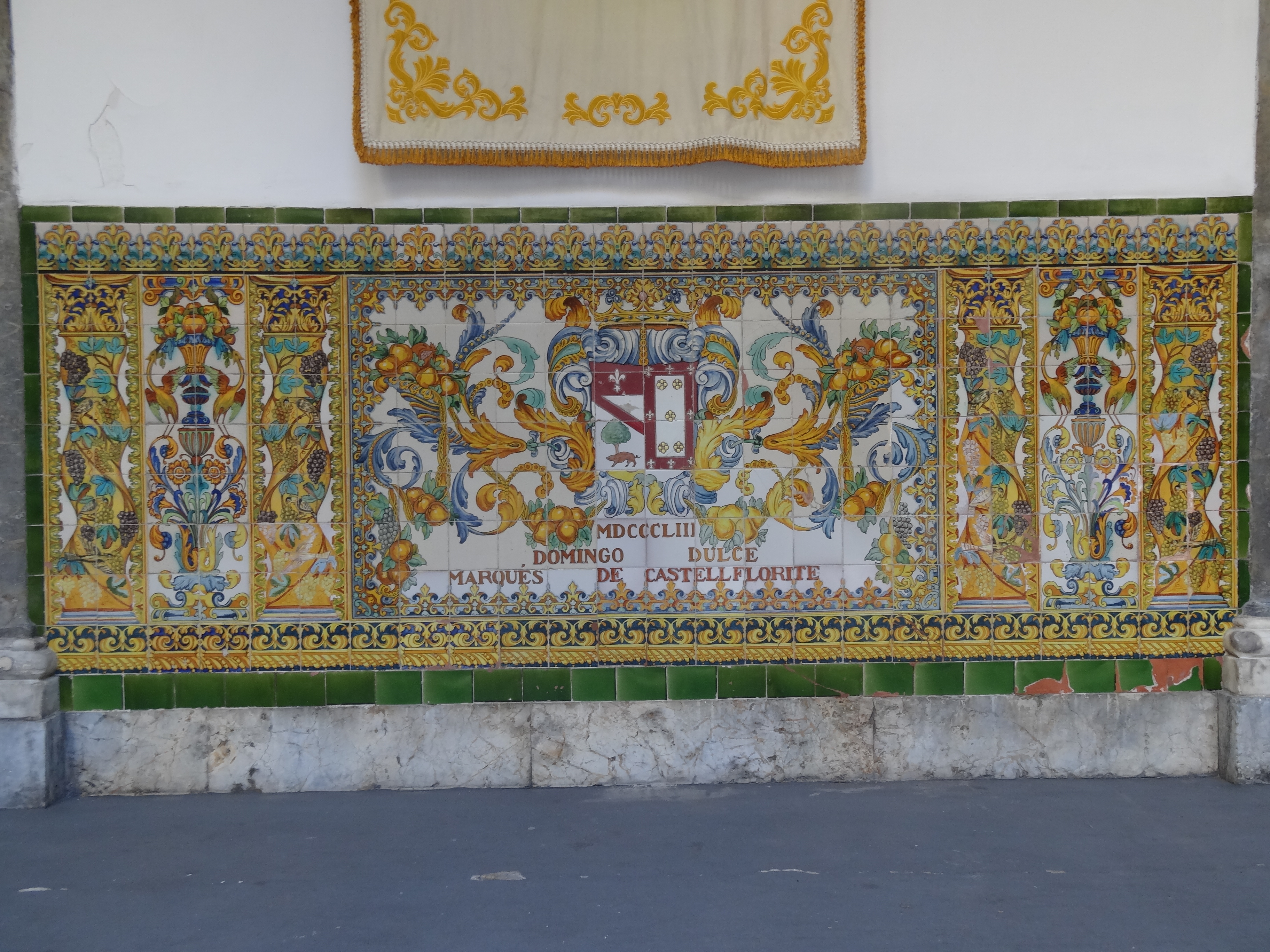 Domingo Dulce, 1st Marquis of Castell-Florite. Decorated tiles at the cloister of the former Convent de la Mercè, Capitania General de Barcelona